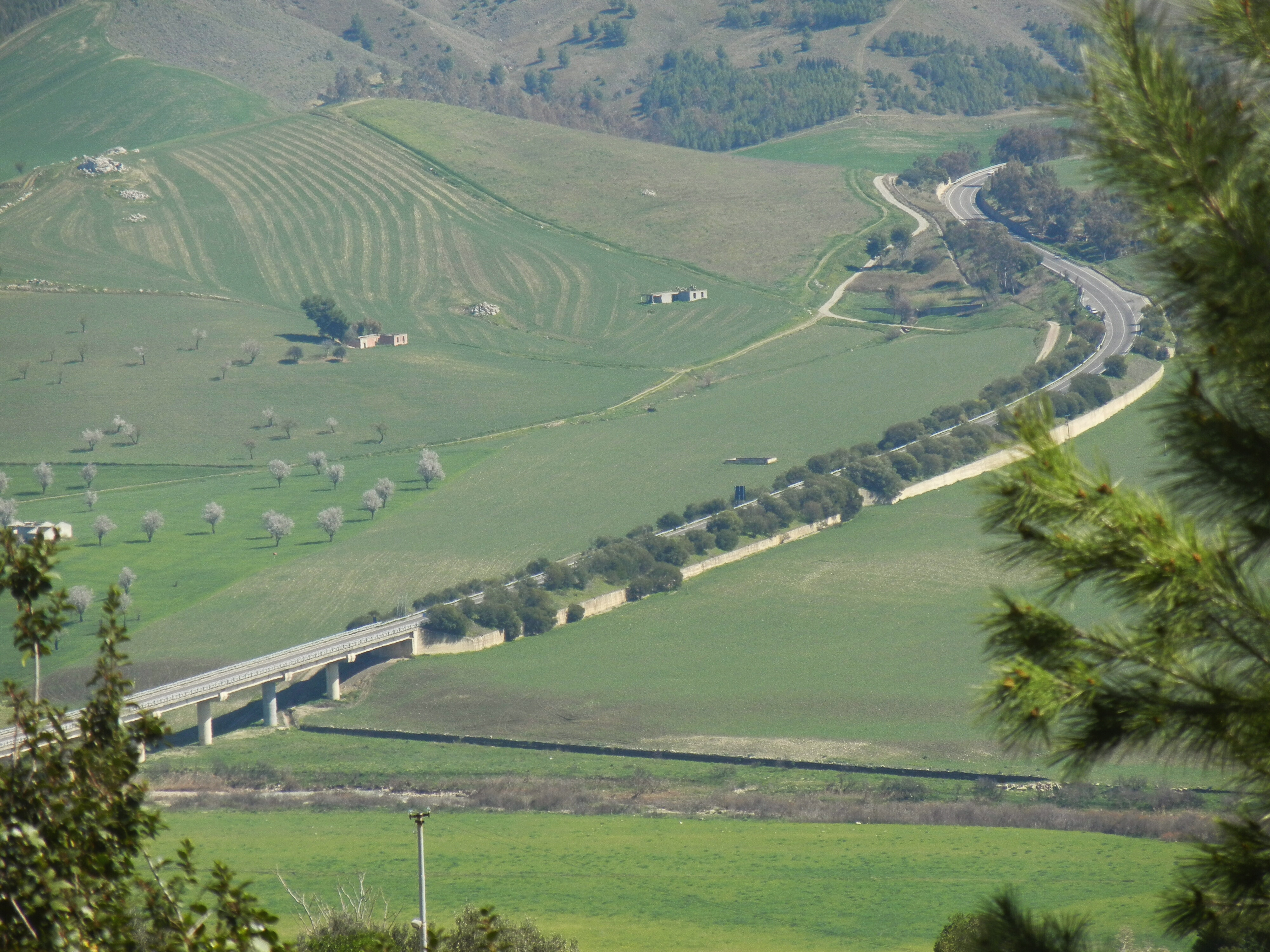 Stretch of Italian national road "S.S. 640 dir Raccordo di Pietraperzia" between Caltanissetta and Pietraperzia (province of Enna, Sicily)